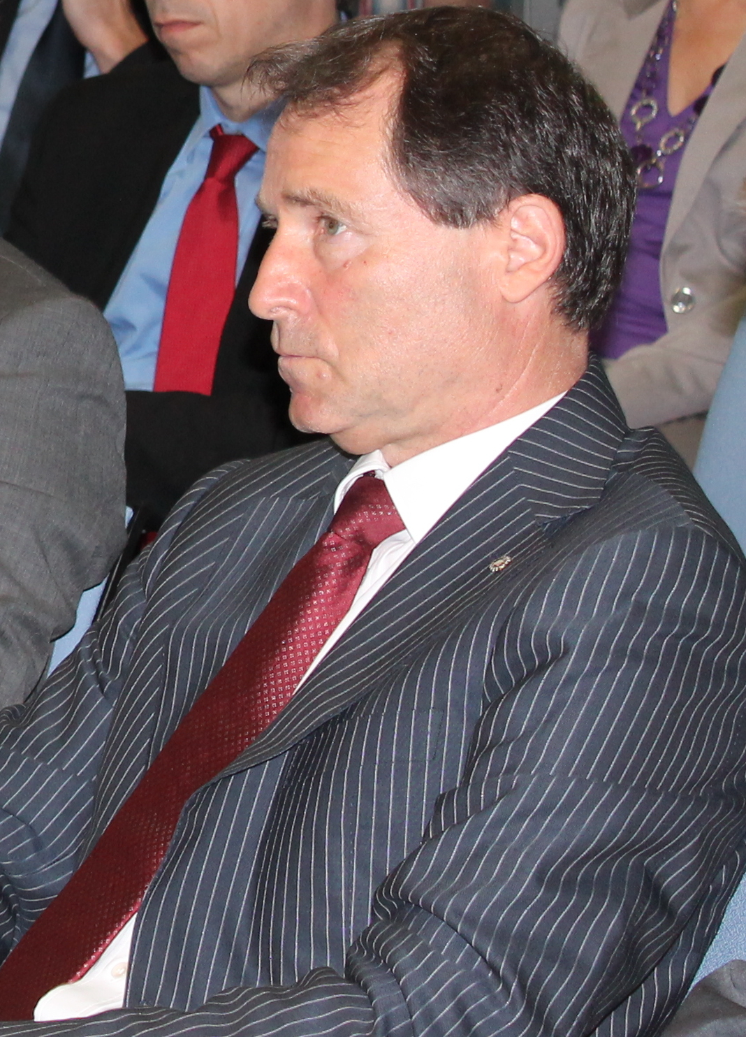 Franz Wohlfahrt at "DARUM EUROPA" at Novomatic.